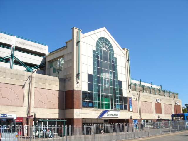 View of County Mall, Crawley, looking east at the Friary Way entrance. Photographed on 4th August 2007.